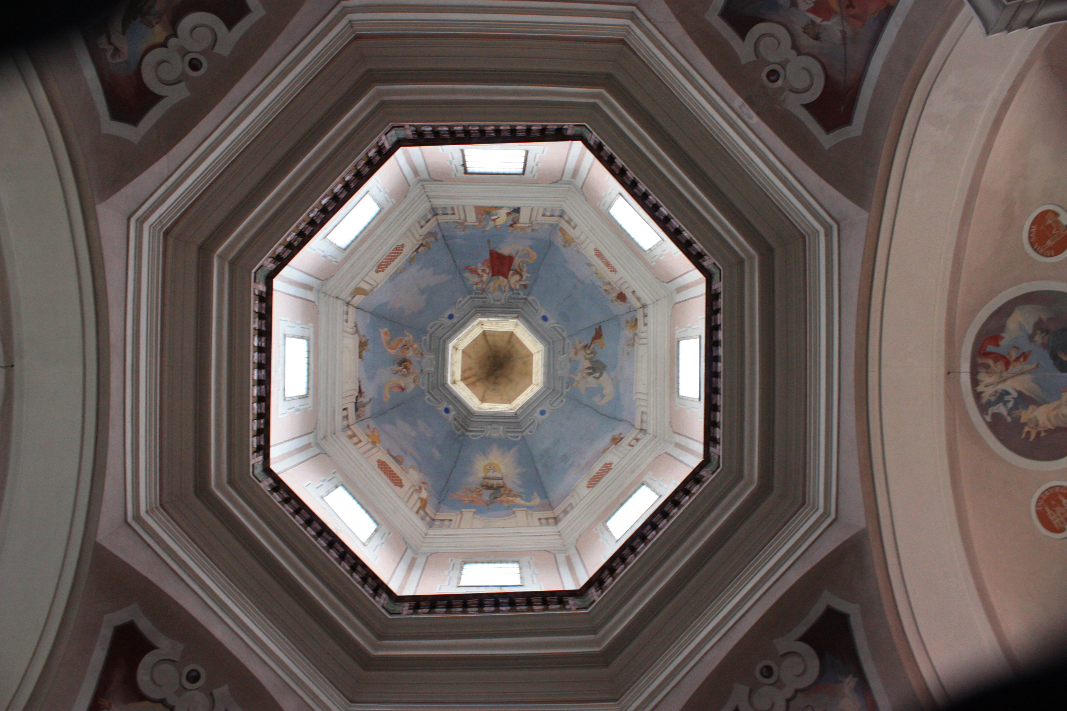 Parish church Holy cross - view inte the dome Street:Ossiacher Zeile Community:Villach